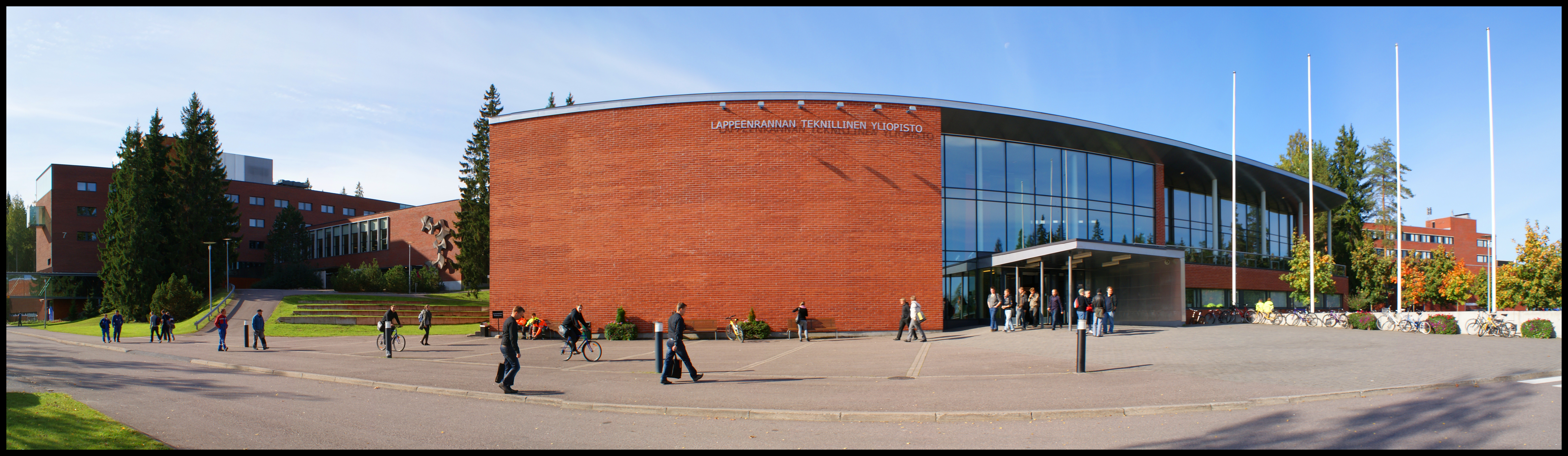 Lappeenranta University of Technology